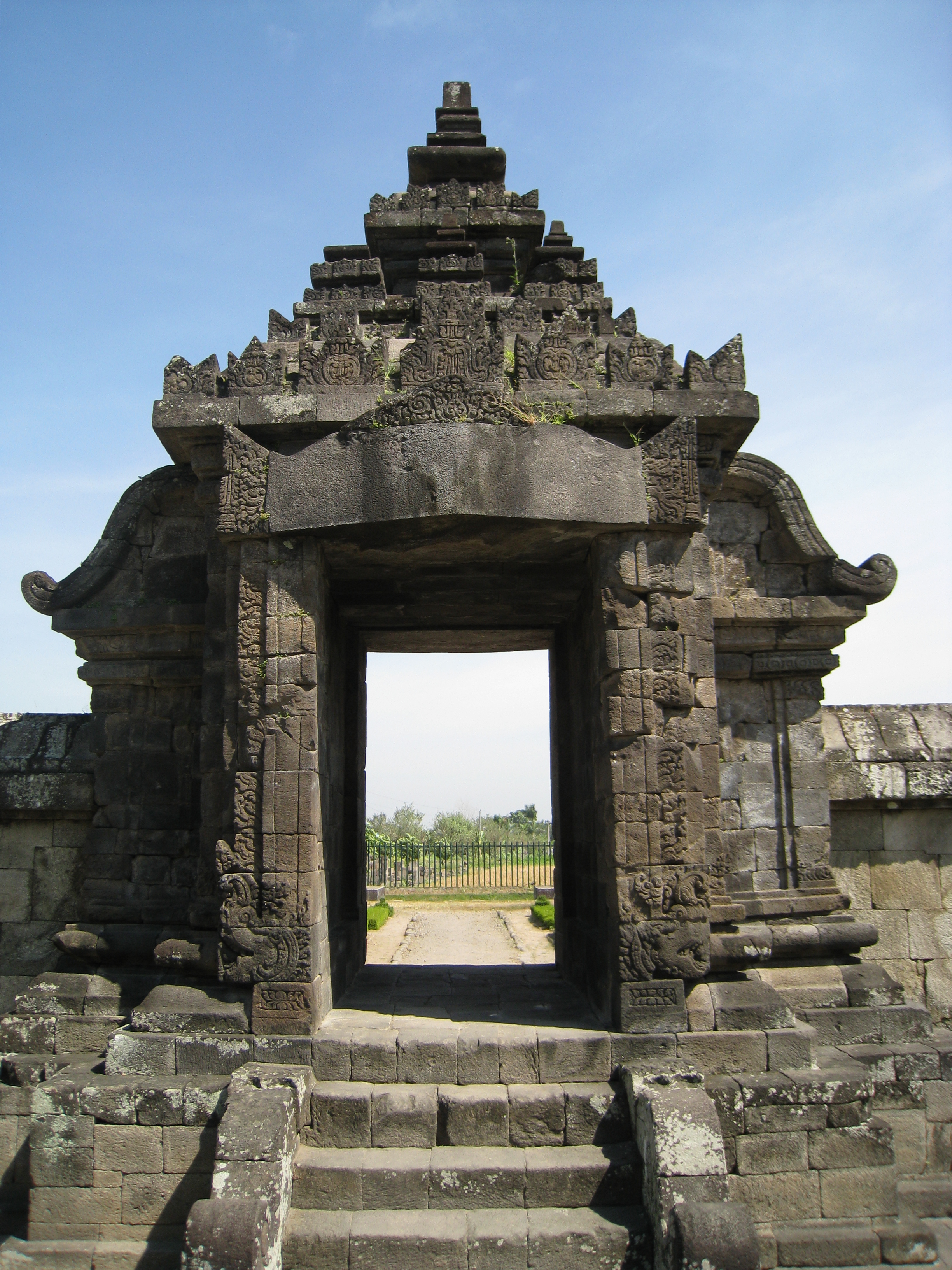 021 Candi Plaosan on the Prambanan Plain, Java Photograph of Candi Plaosan in Java, Indonesia taken by Anandajoti.